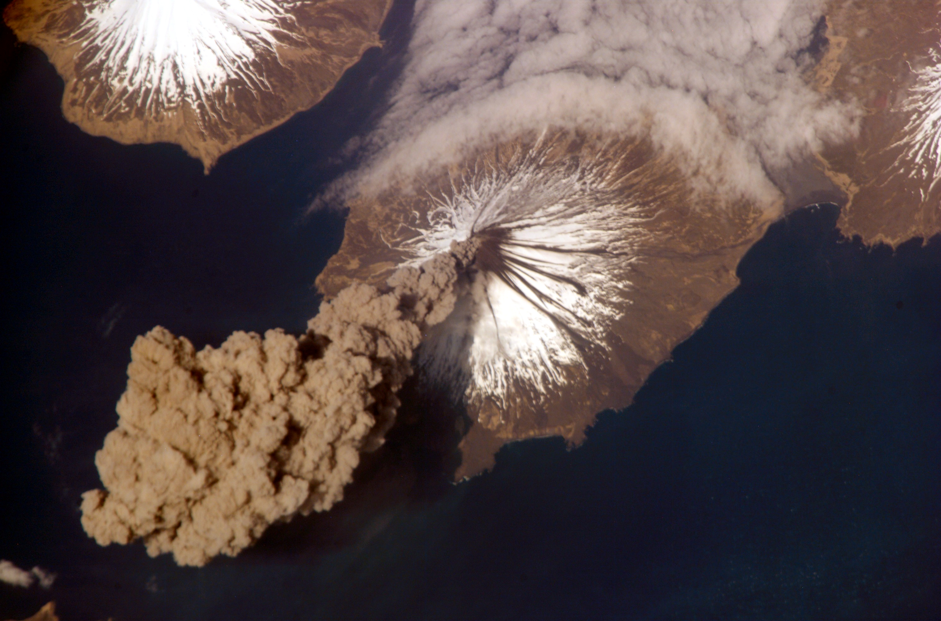 Cleveland Volcano erupted on May 23,2006 in a short-lived spurt that lasted only two hours. NASA astronaut and Expedition 13 science officer/flight engineer Jeffrey Williams on board the ISS grabbed a camera and caught this magnificent image.